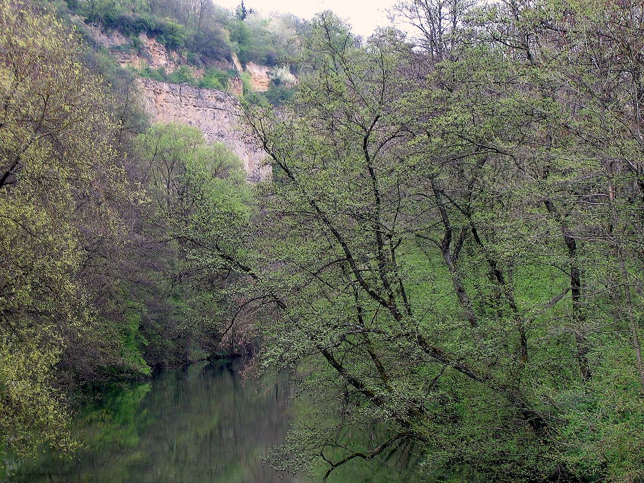 Rems river near by the junction with Neckar river near Remseck, Baden-Württemberg